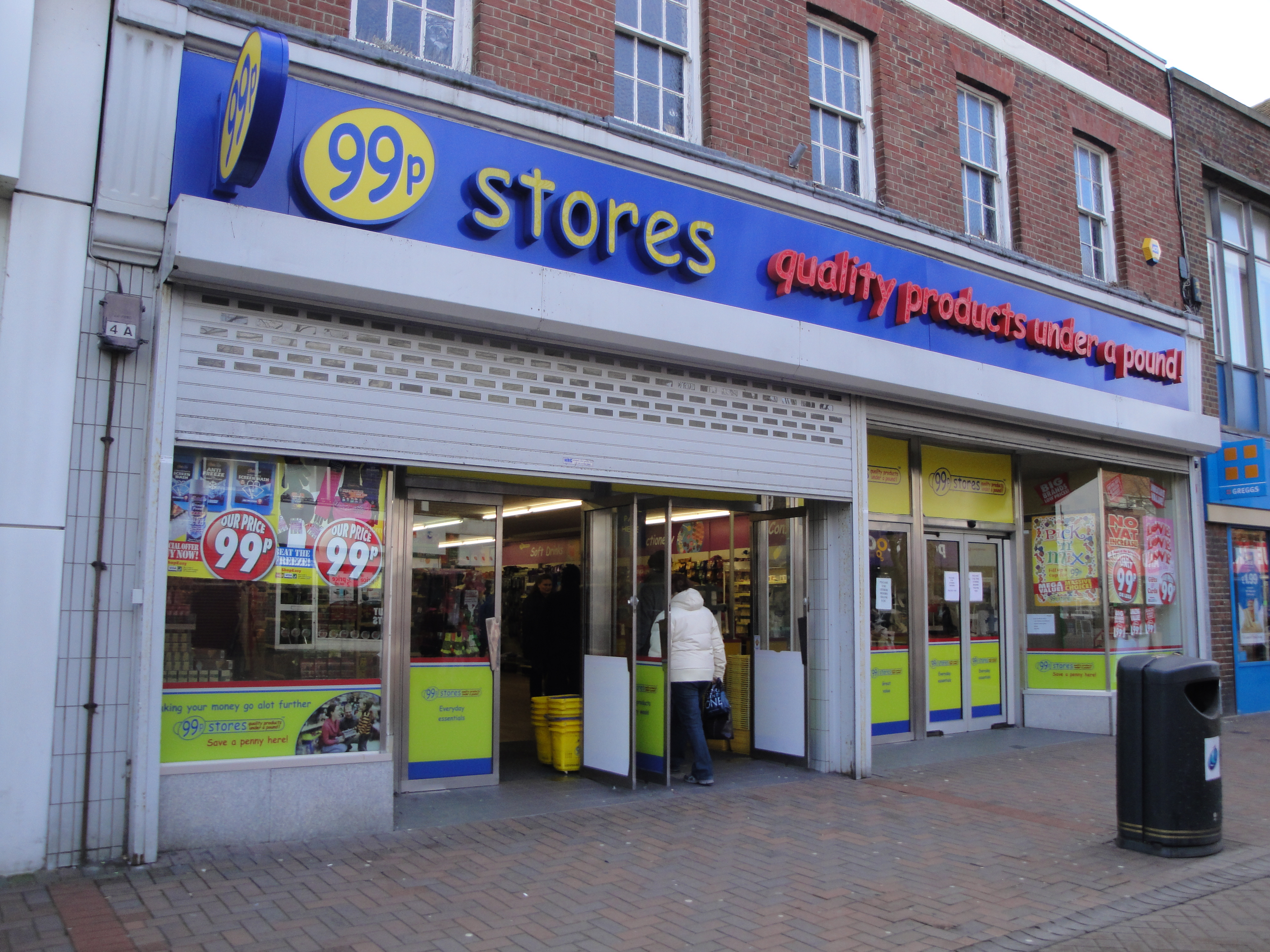 99p Stores, on the High Street, Gosport, Hampshire. The site was previously occupied by a Woolworths store.